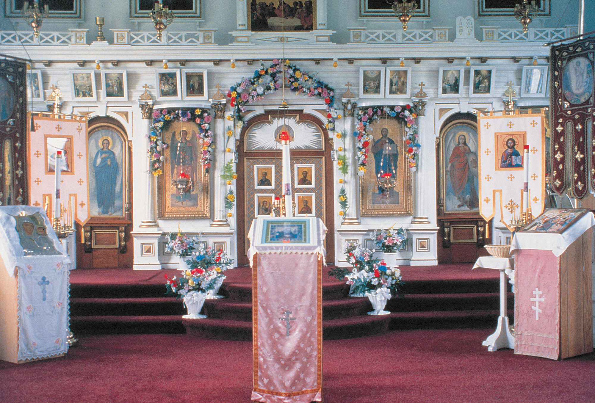 Interior of a Russian Orthodox Church in Seldovia, Alaska. Russian Orthodox churches are typically richly decorated with gold icons and numerous religious symbols. Even in the smallest port communities, the churches are lavishly decorated. Russian Orthodox churches are found in a dozen port communities and include Unalaska, Kodiak, Seldovia, Juneau, and Sitka, to name a few. These churches continue to have active congregations and are a rare glimpse into Russian-American culture that began in the late 1700's. All churches offer cultural tours.